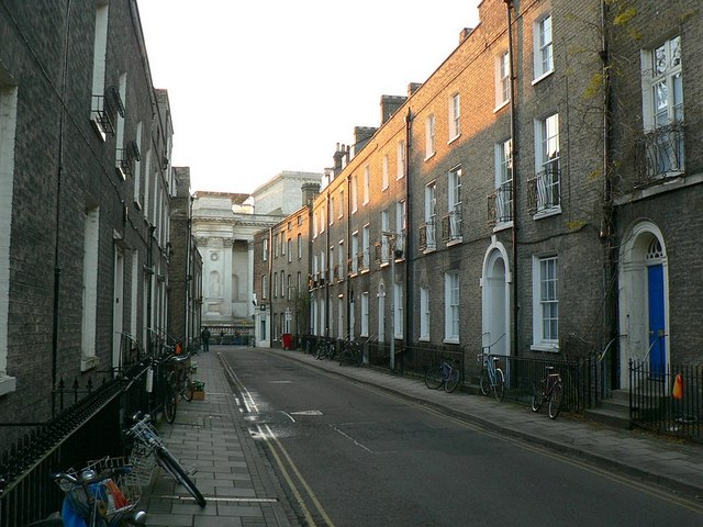 Fitzwilliam Street, Cambridge Looking west towards Trumpington Street and the Fitzwilliam Museum